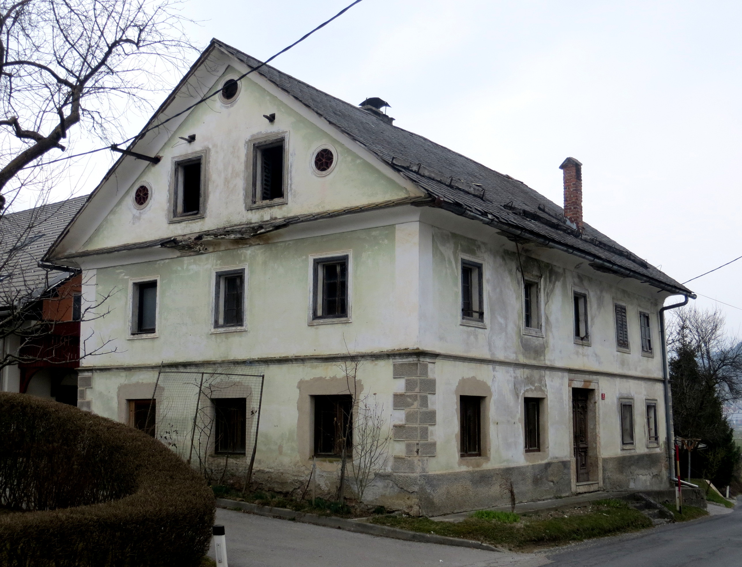 House at Dolenja Dobrava no. 2, Municipality of Gorenja Vas–Poljane, Slovenia